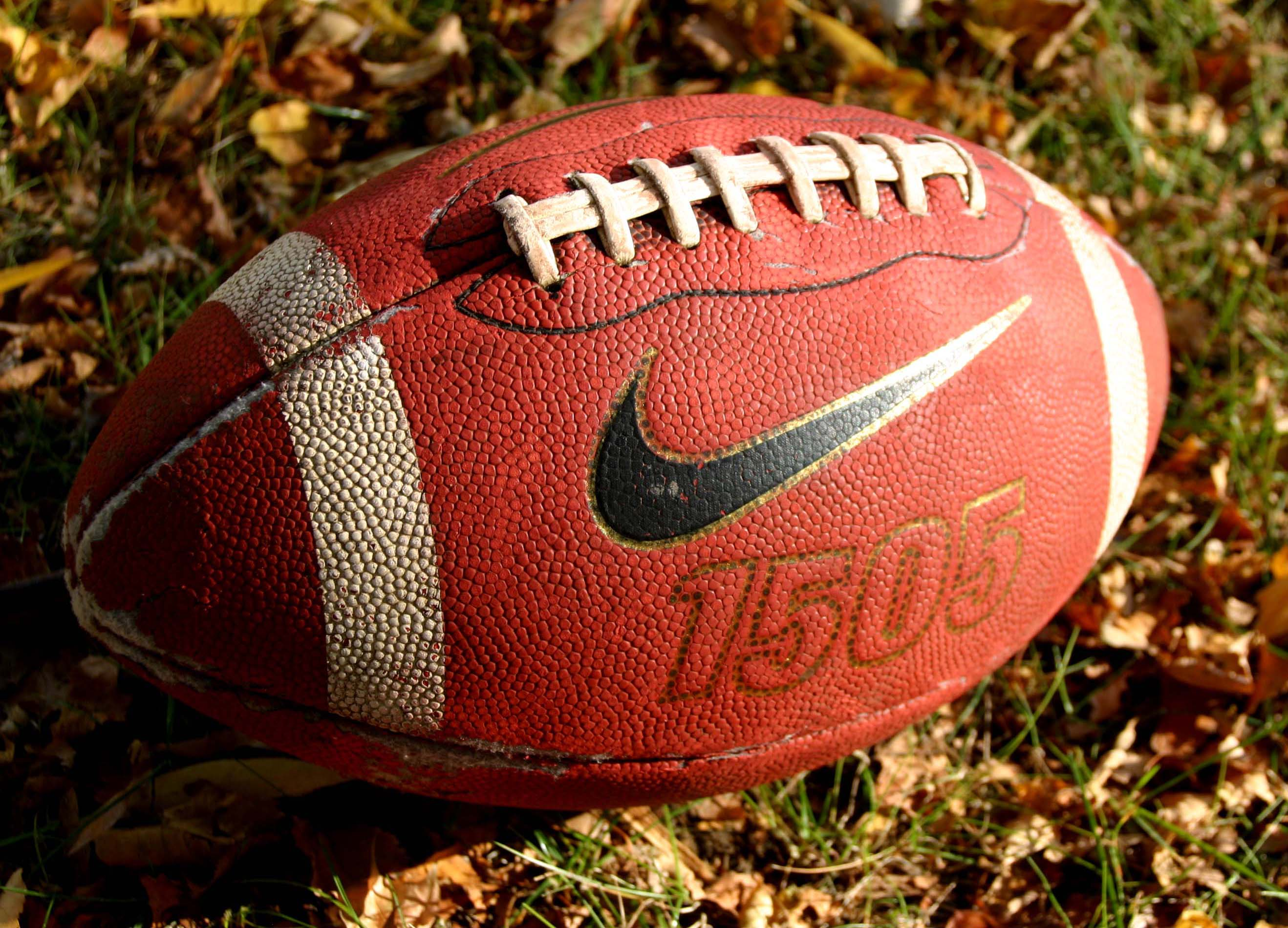 This is a picture of an American football in the Fall.